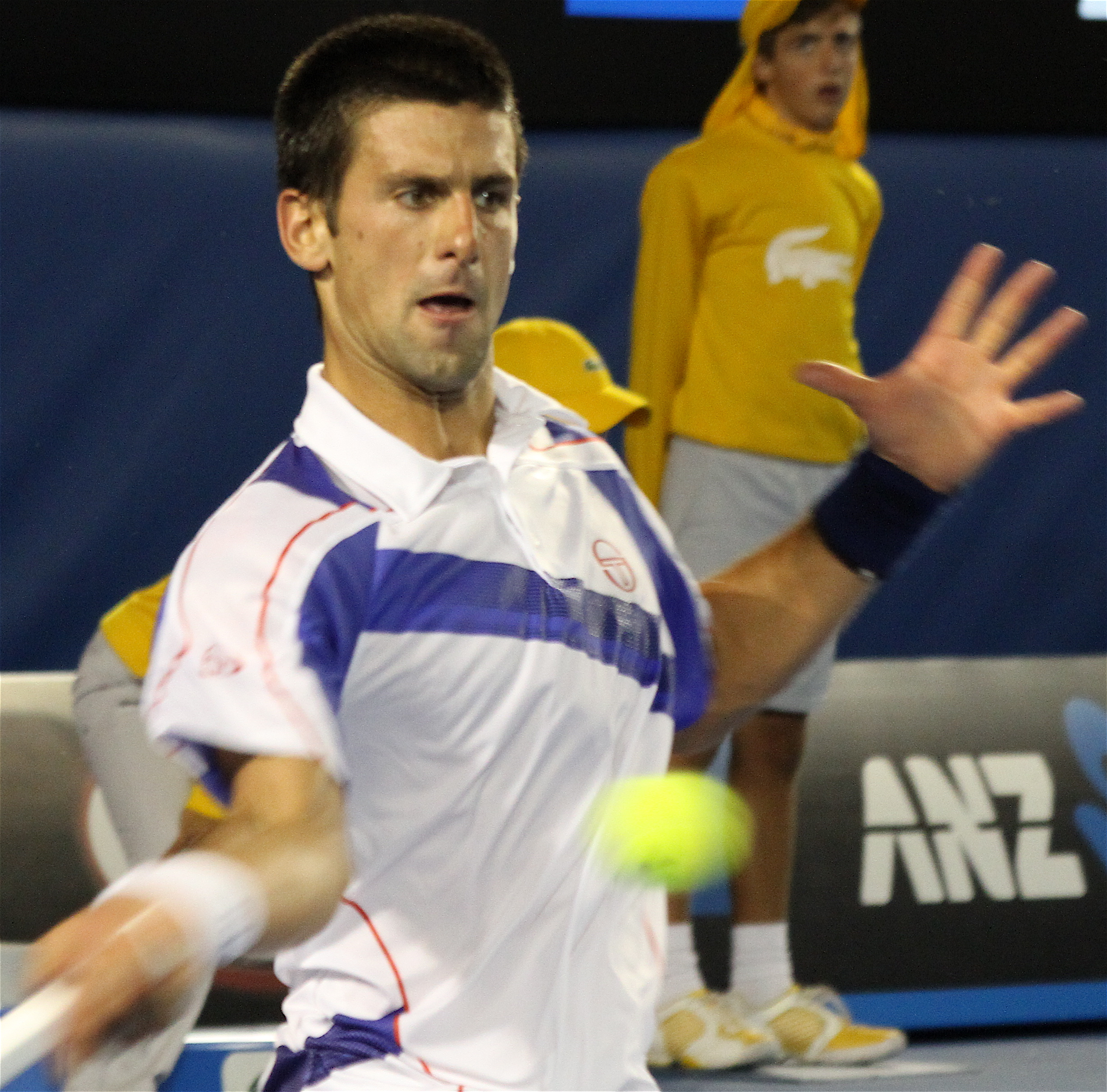 Novak Djokovic at the 2011 Au stralian Open